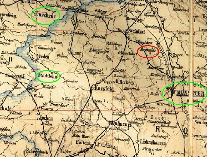 excerpt of a map about Germany dated from 1883